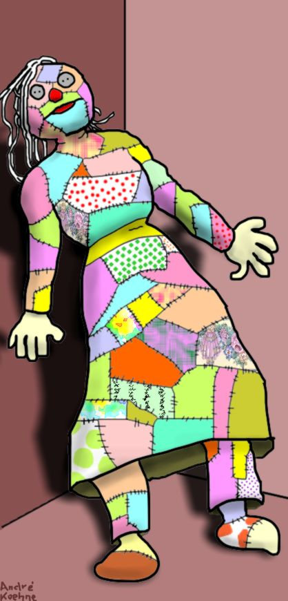 I don't do art for a living, neither for personal nor professional propaganda. I don't make any drawings for money. Thanks.